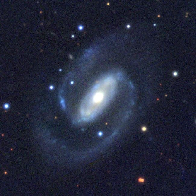 PanSTARRS image of NGC 688.